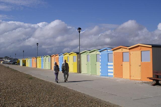 Beach Huts at Seaford A late afternoon stroll beyond the Martello Tower Museum reveals lots of seafront colour.